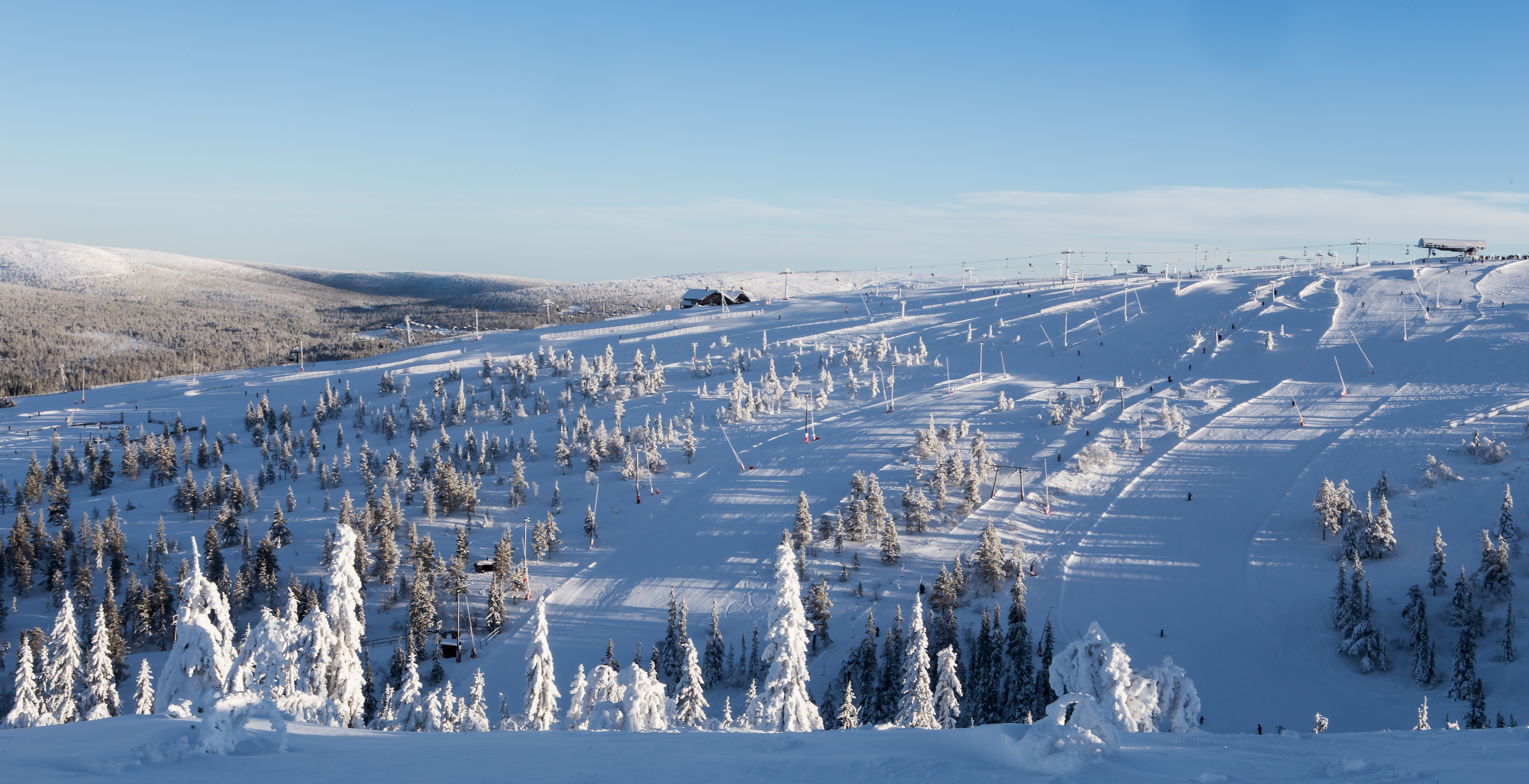 The "Ravin" slopes at Hunfjället ski resort in Sweden.